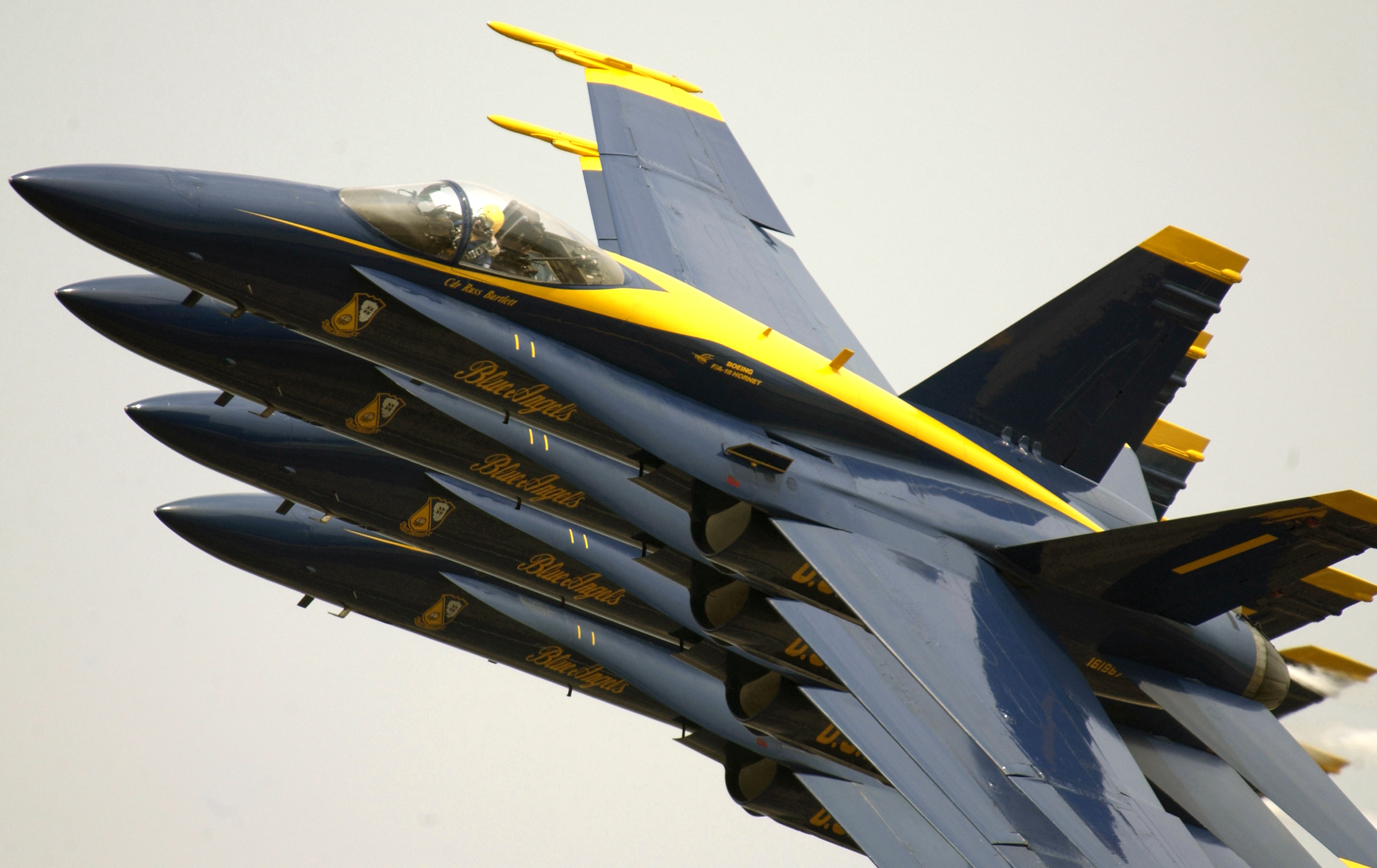 North Kingstown, R.I. (June 26, 2003) - Four F/A-18 Hornet strike fighters assigned to the U.S. Navy's Flight Demonstration Team, "Blue Angels," perform the "Echelon Parade" maneuver in front of the crowd attending the air show in North Kingstown, R.I., celebrating the centennial of powered flight. U.S. Navy photo by Photographers Mate 2nd Class Saul McSween. (RELEASED)